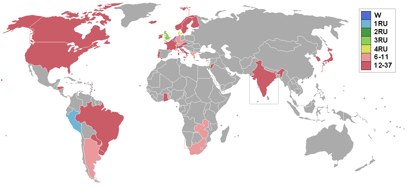 results map